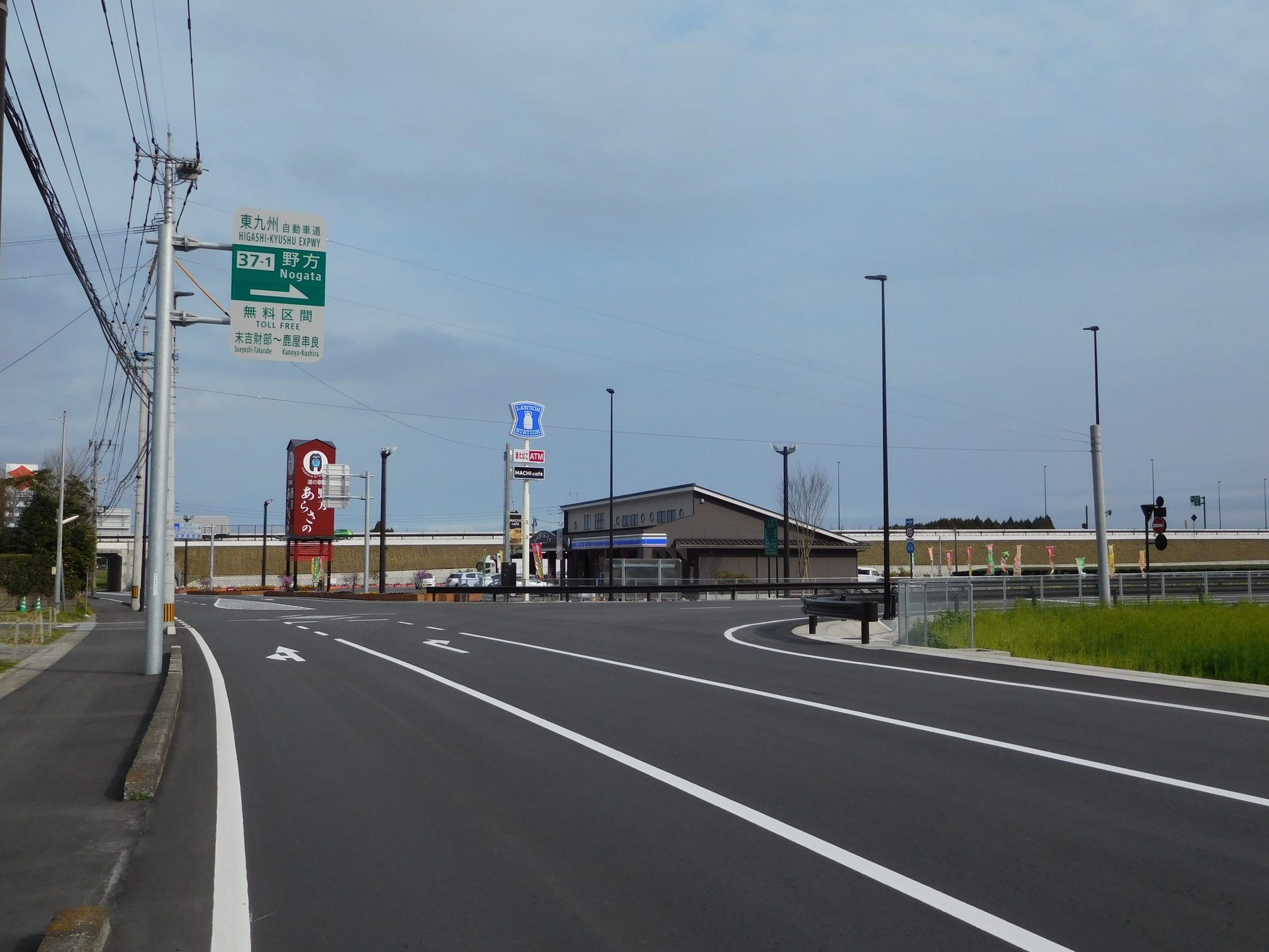 The Kagoshima Prefectural Road No.64 (Osaki-Kihoku Line) and Higashi-Kyushu Express Way Nogata Interchenge at Arasano, Nogata, Osaki Town, Kagoshima Prefecture, Japan.